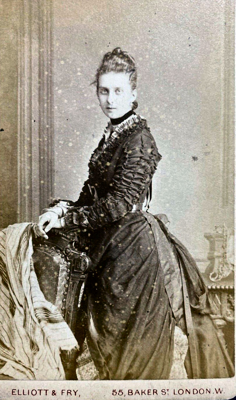 Carte de visite by Elliott & Fry of the composer Rosalind Frances Ellicott (1857-1924)